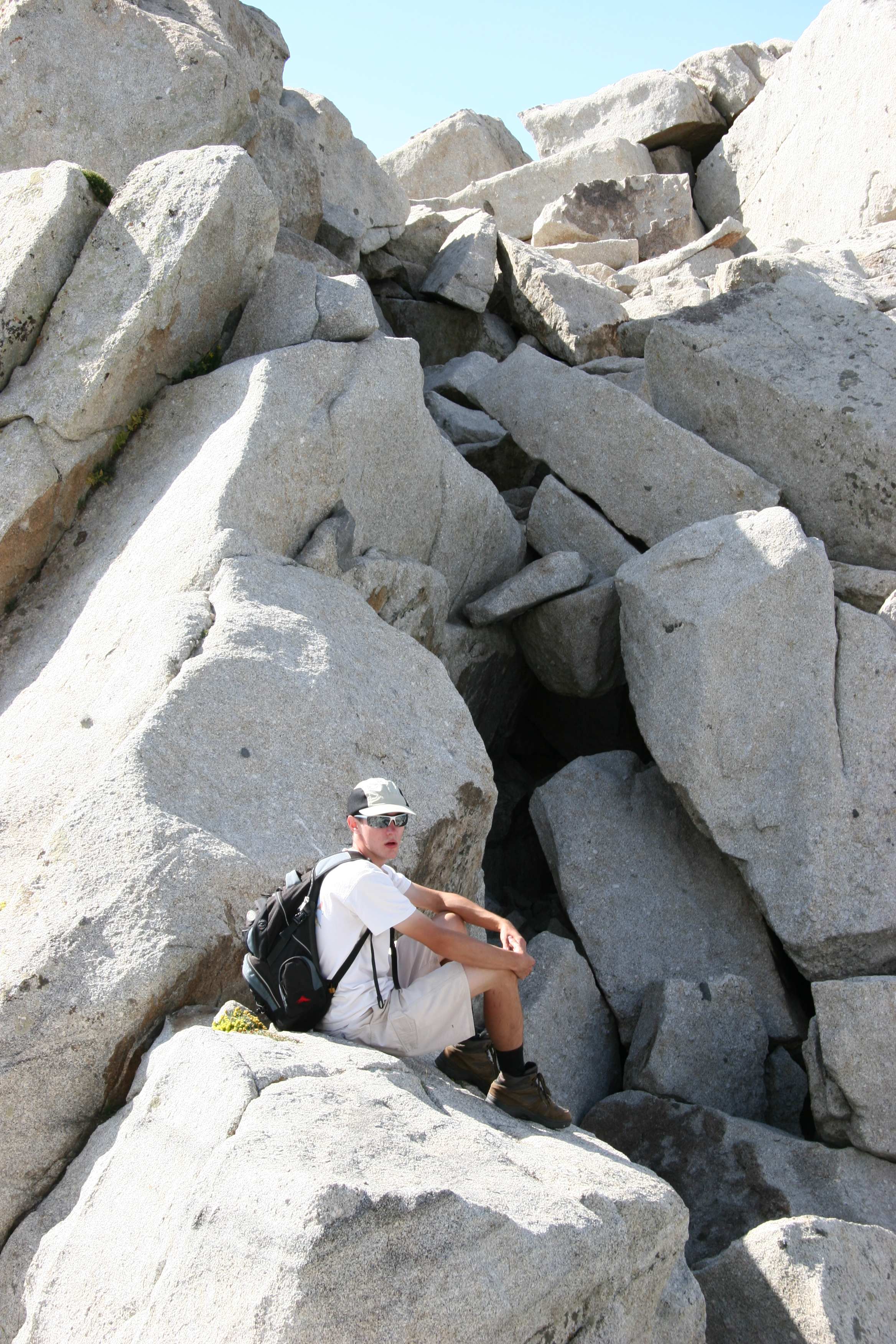 Going up the Lone Peak Wall.